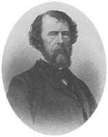 Image of Nathaniel Parker Willis.